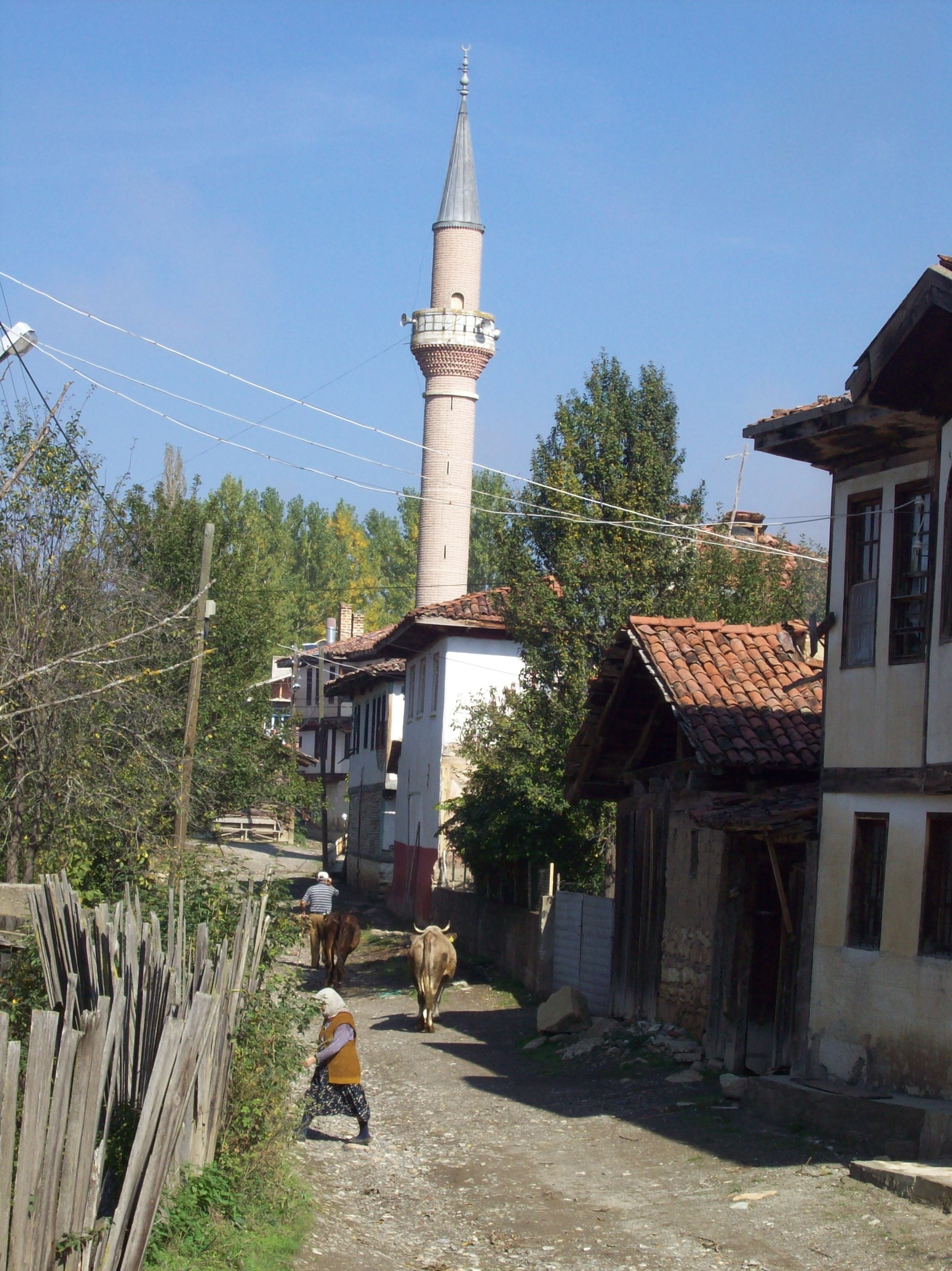 Sarıçam village mosque